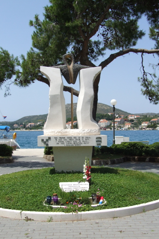 Memorial 1995 war in Slano